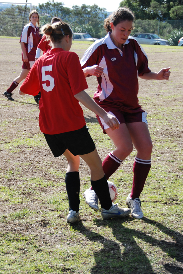 North Sydney player performs a "nutmeg" against a Berowra player